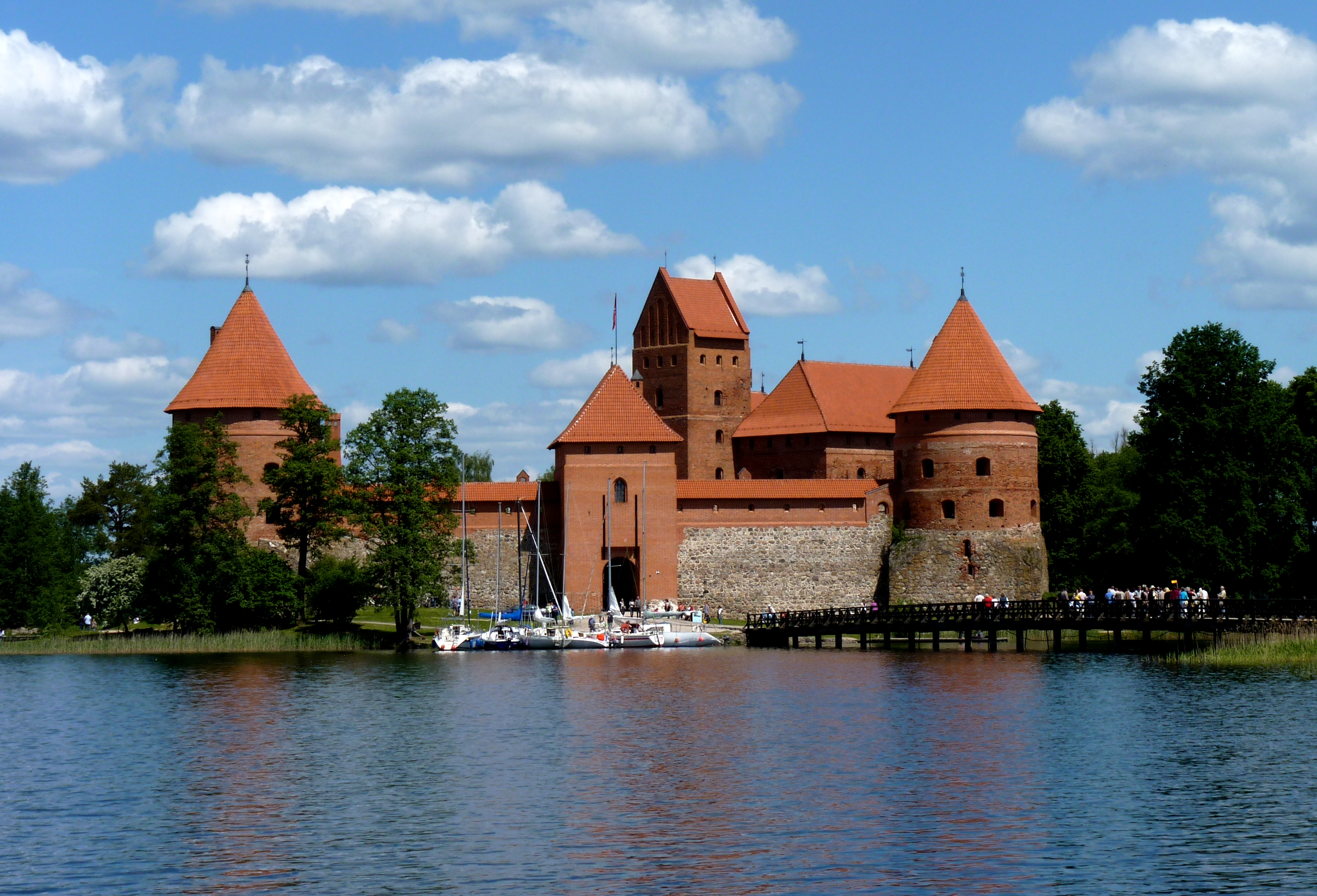 Trakai Island Castle (Trakų salos pilis) is an island castle located in Trakai, Lithuania on an island in Lake Galvė.